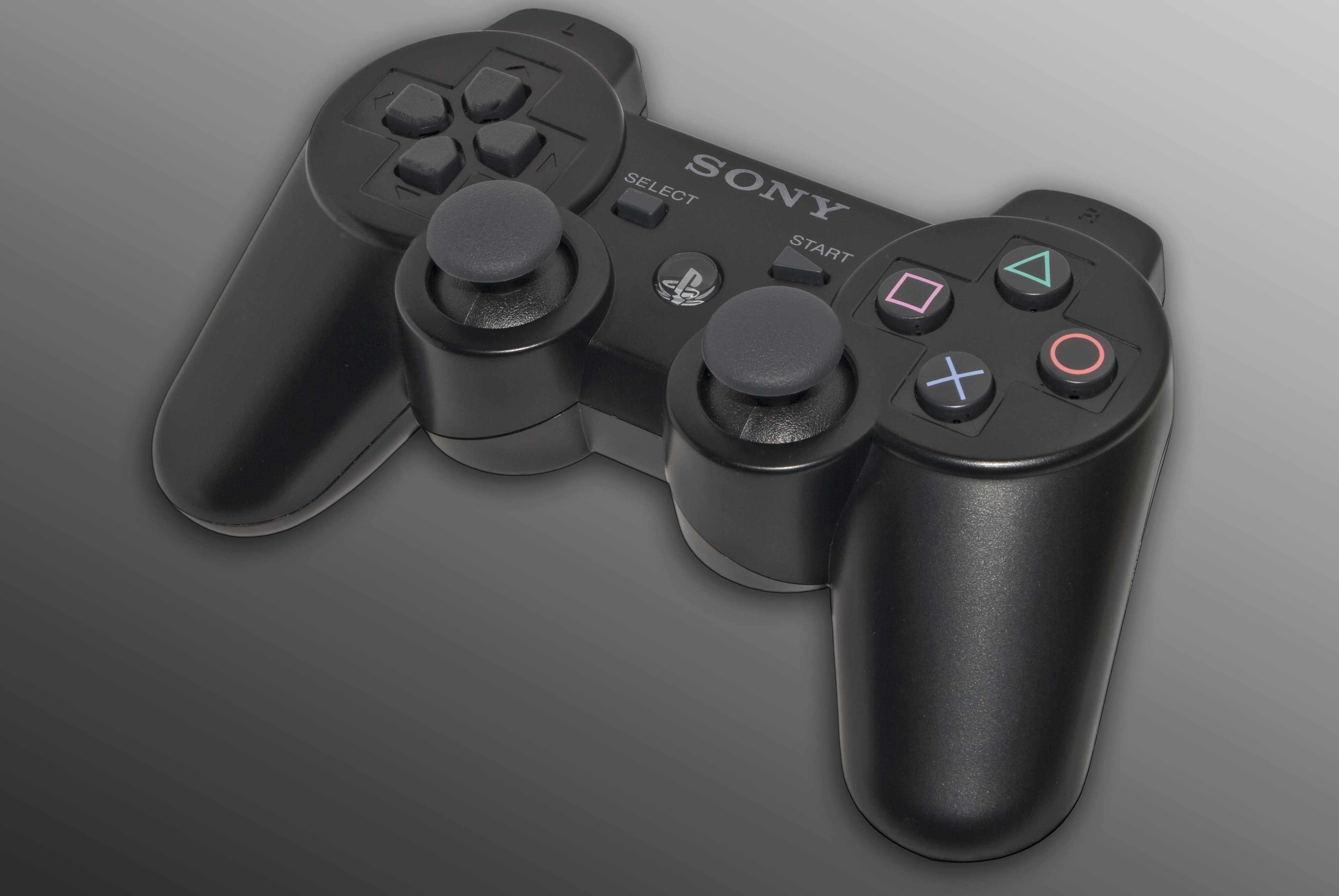 Sony PlayStation 3 SIXAXIS Controller